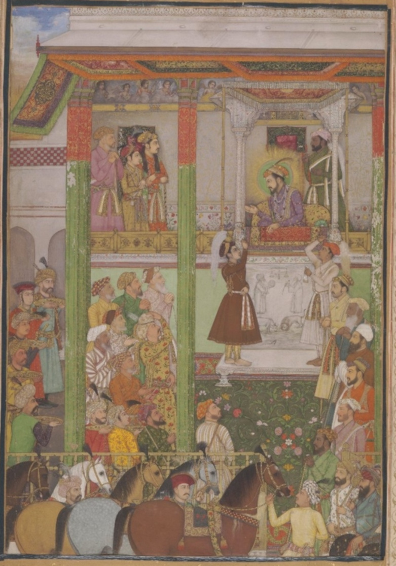 Jehangir Padshah: Shahjahan receives Ali Mardan Khan in durbar. Mughal style, 17th century, c. 1640.